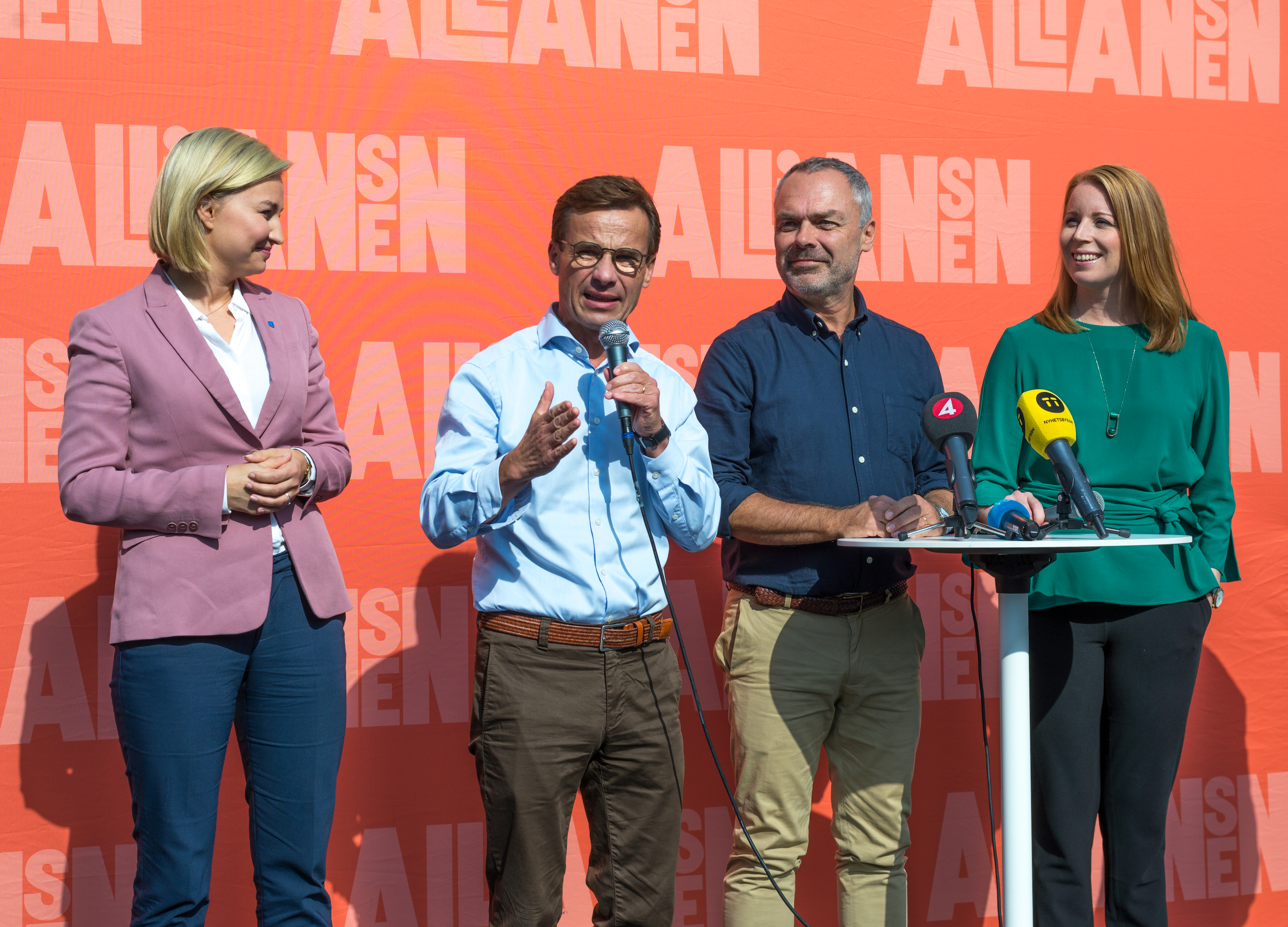 Alliance leaders at Soltorget at Sergel Square in Stockholm, the day before the election day, September 8, 2018. From the left: Ebba Busch Thor, Ulf Kristersson, Jan Björklund, Annie Lööf.